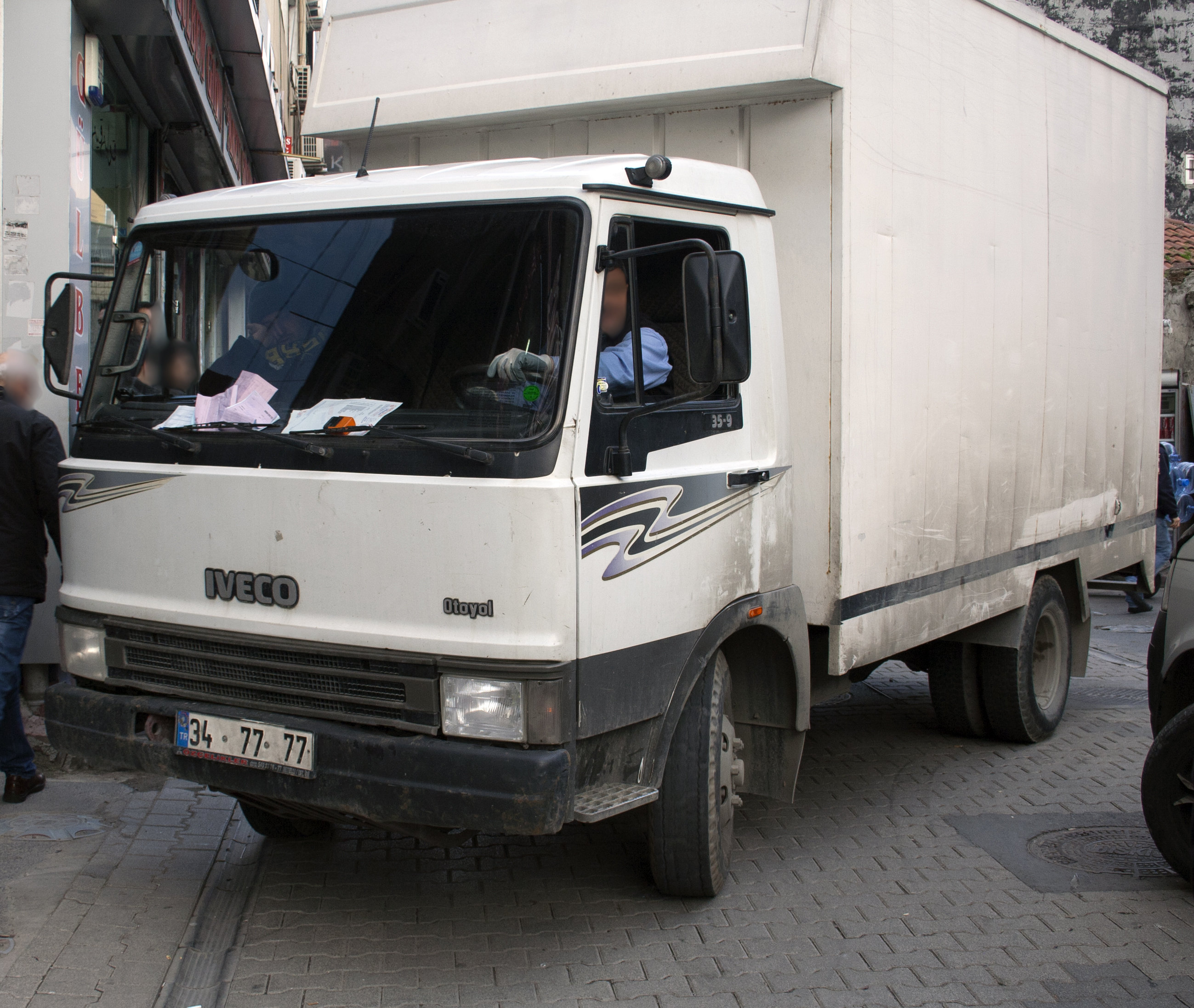 Iveco 35-9 (Zeta), built by Otoyol, Iveco's Turkish partner. Sort of stuck on a tight corner of Bezciler Sokaği in the Fatih neighborhood, Istanbul